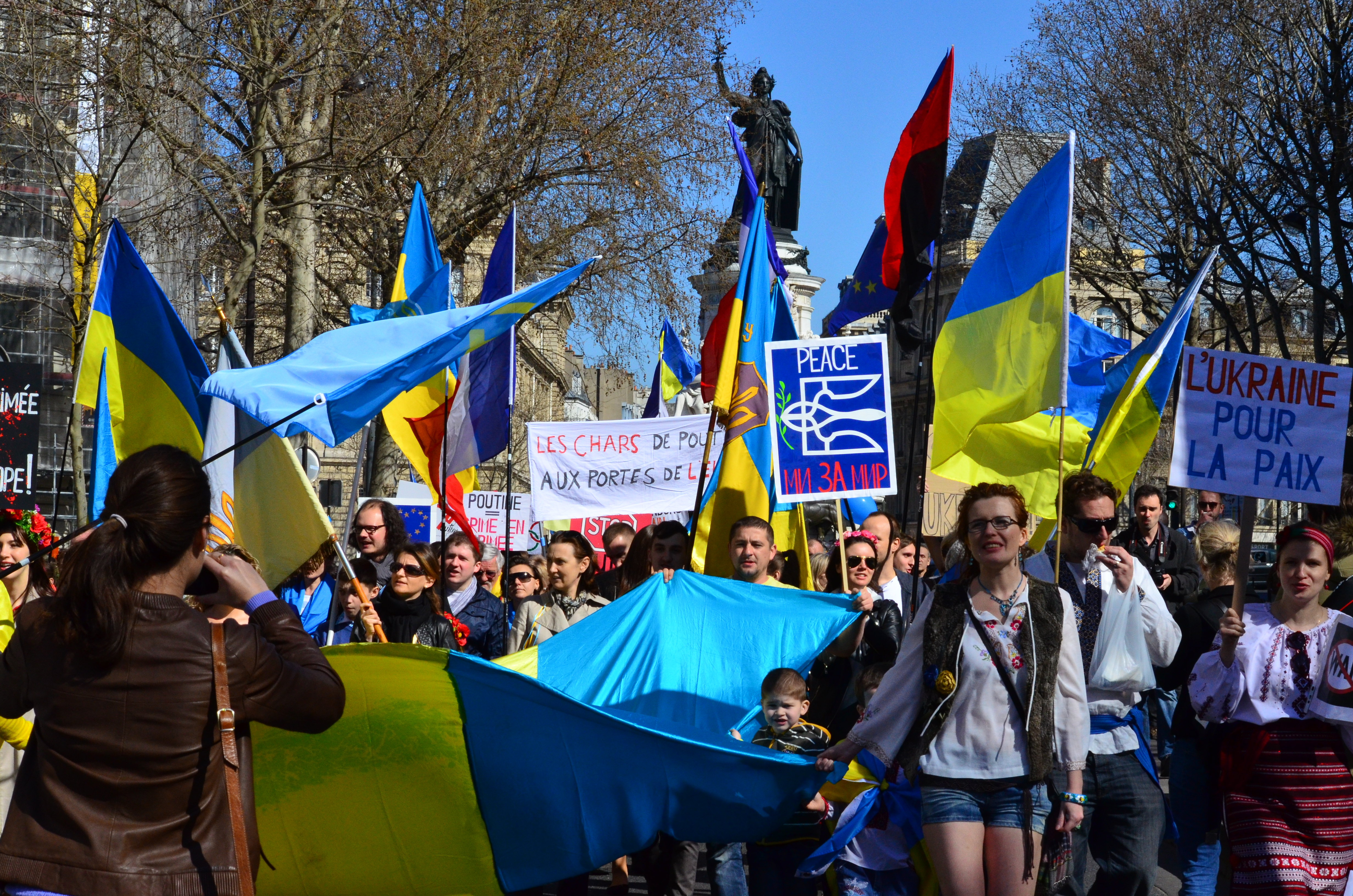 From the Square of the Republic to the Fountain of the Innocents